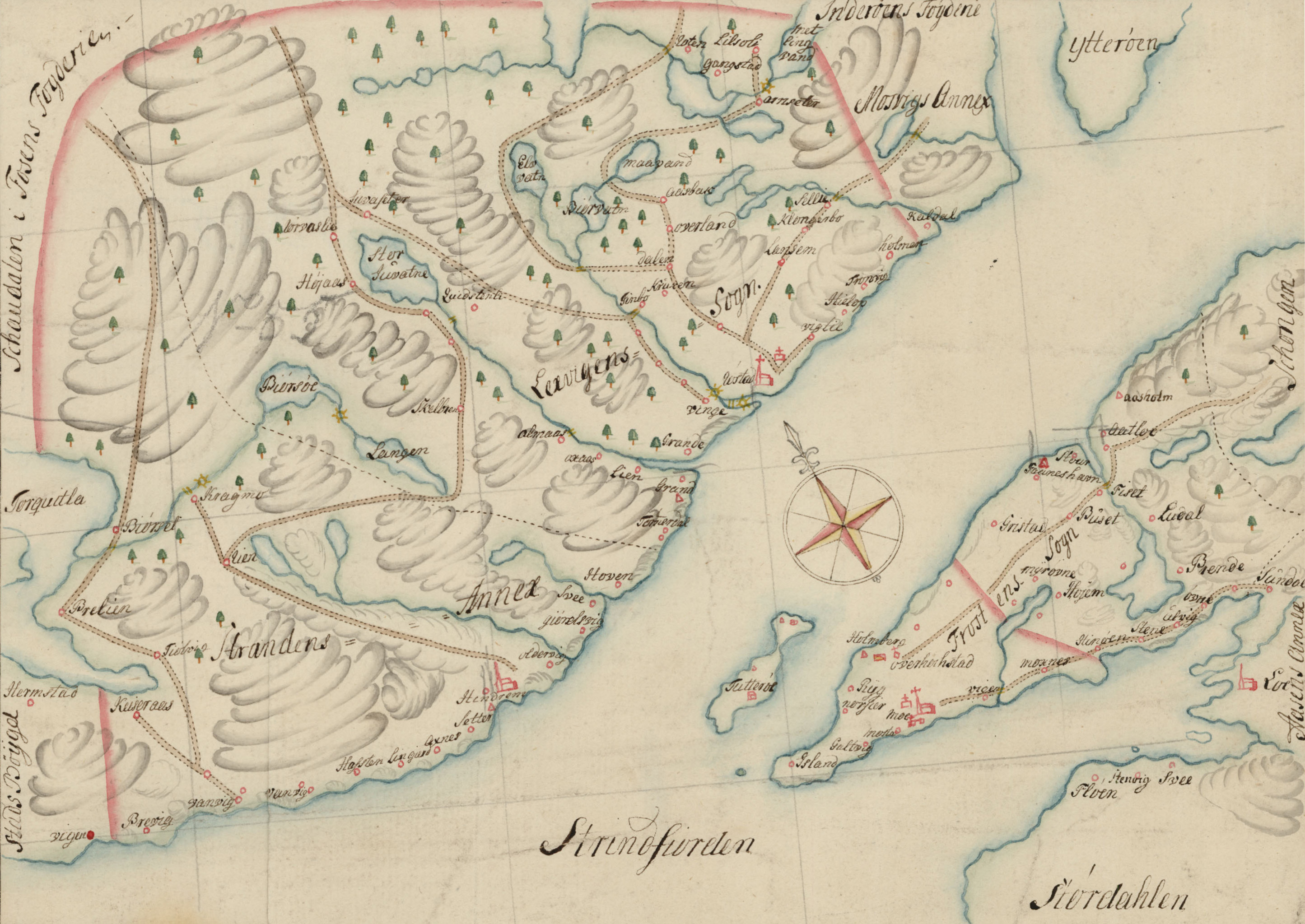 Map of Leksvik and Frosta in 1765